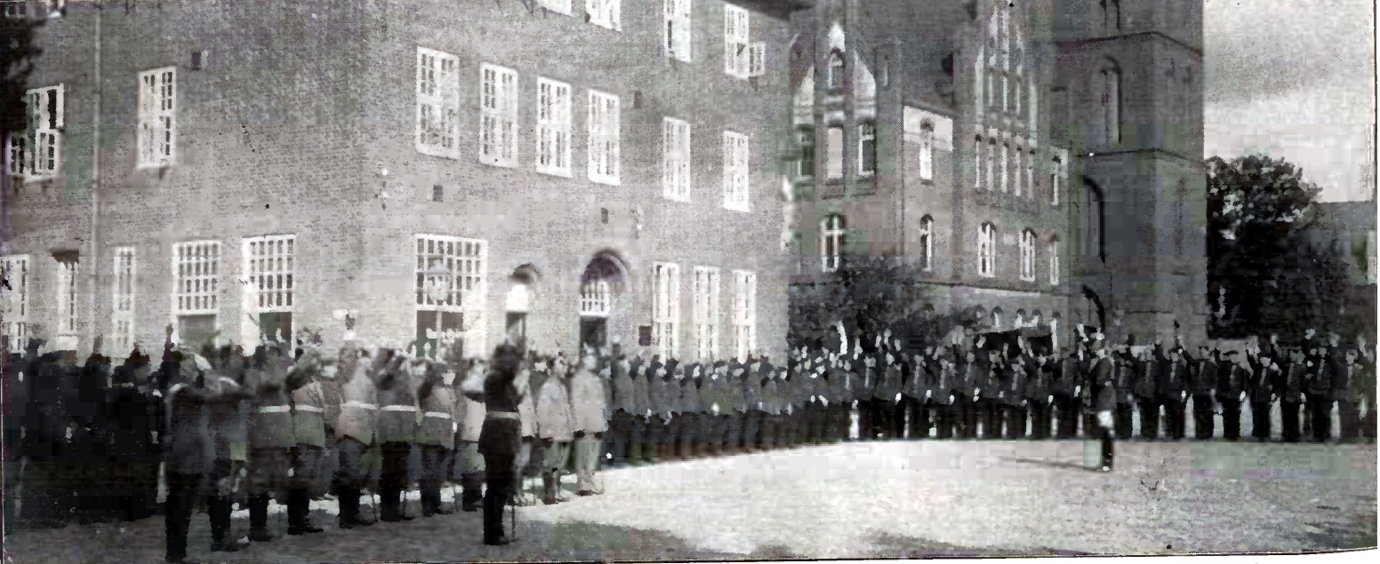 The Protestant and Catholic recruits lined up in the parade after the swearing in an open square. The district commander, Colonel v. Kuehnheim, brought a high on the supreme warlord and the Senate of Lübeck.